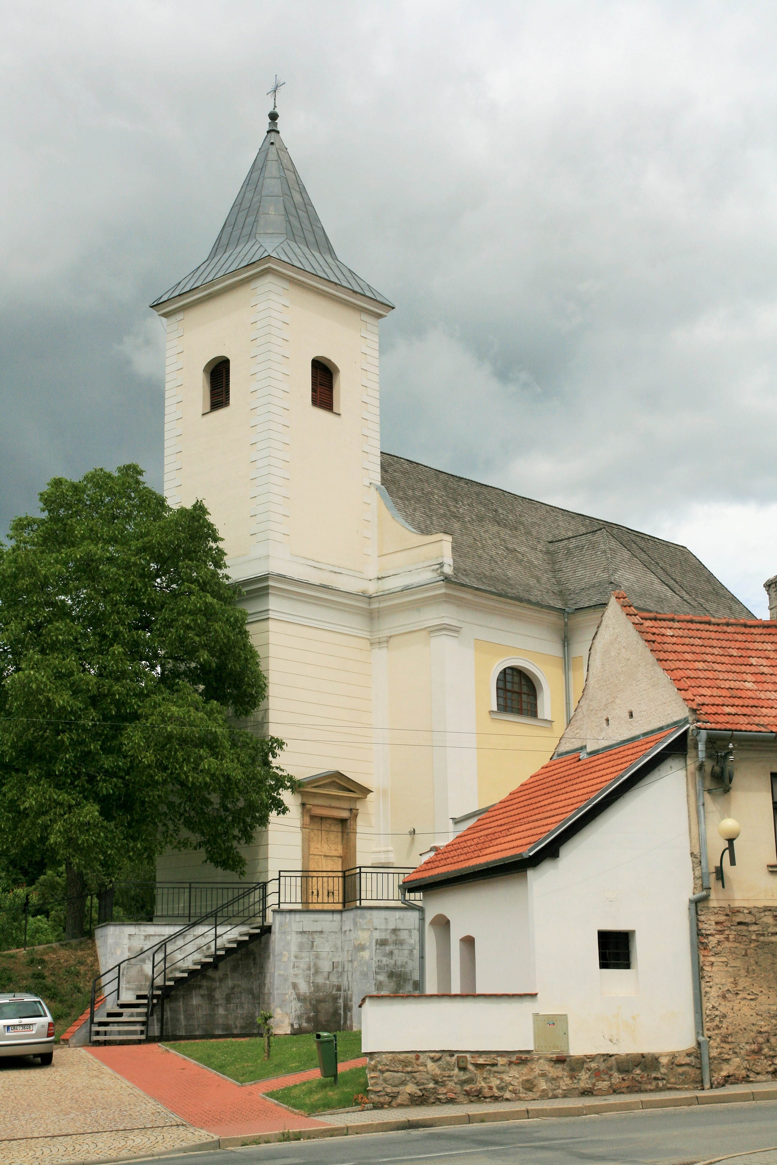 Church of Saint Lawrence in Černá Hora, Blansko District, Czech Republic.